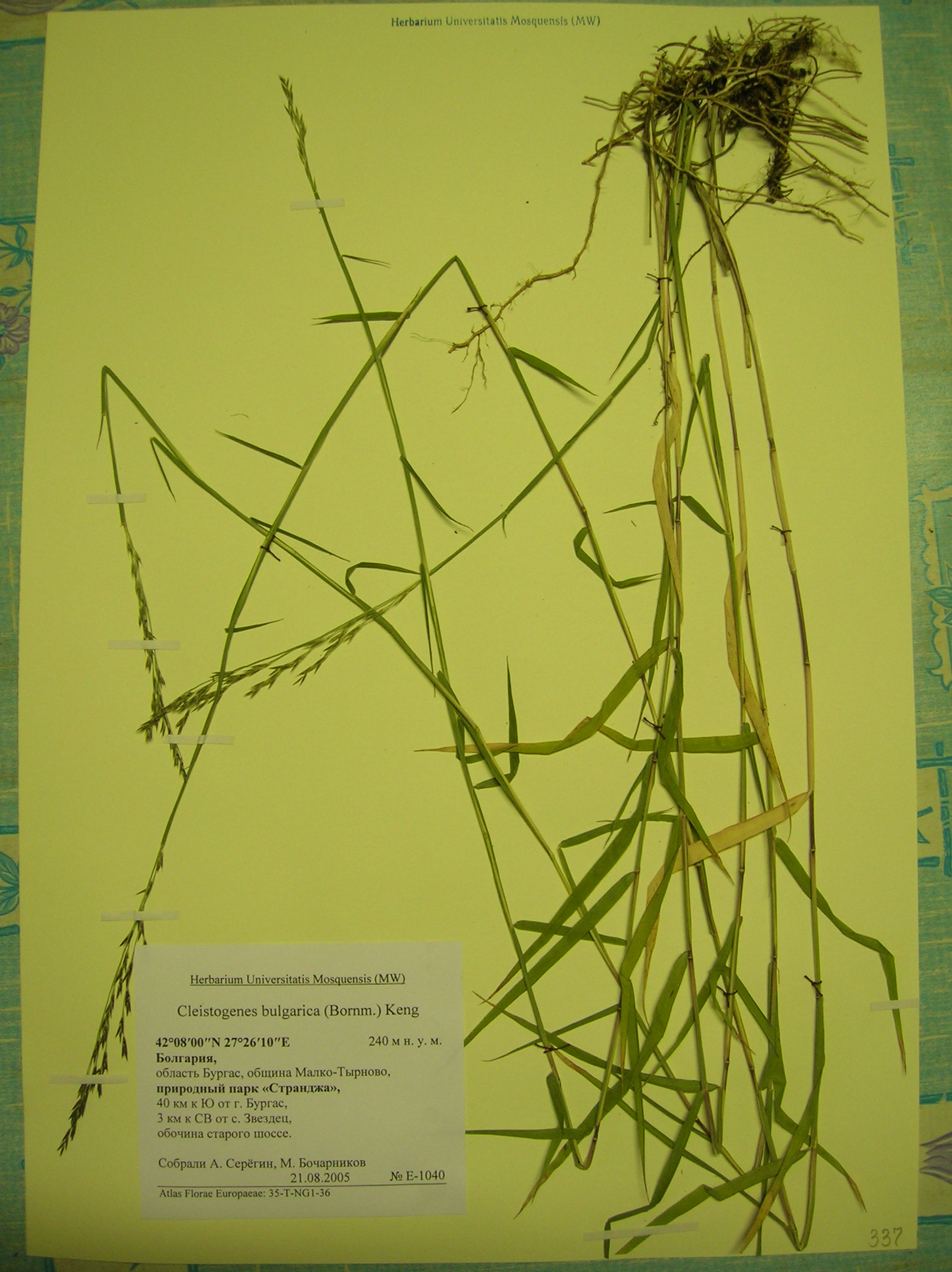 Herbarium specimen of Cleistogenes bulgarica (Gramineae)